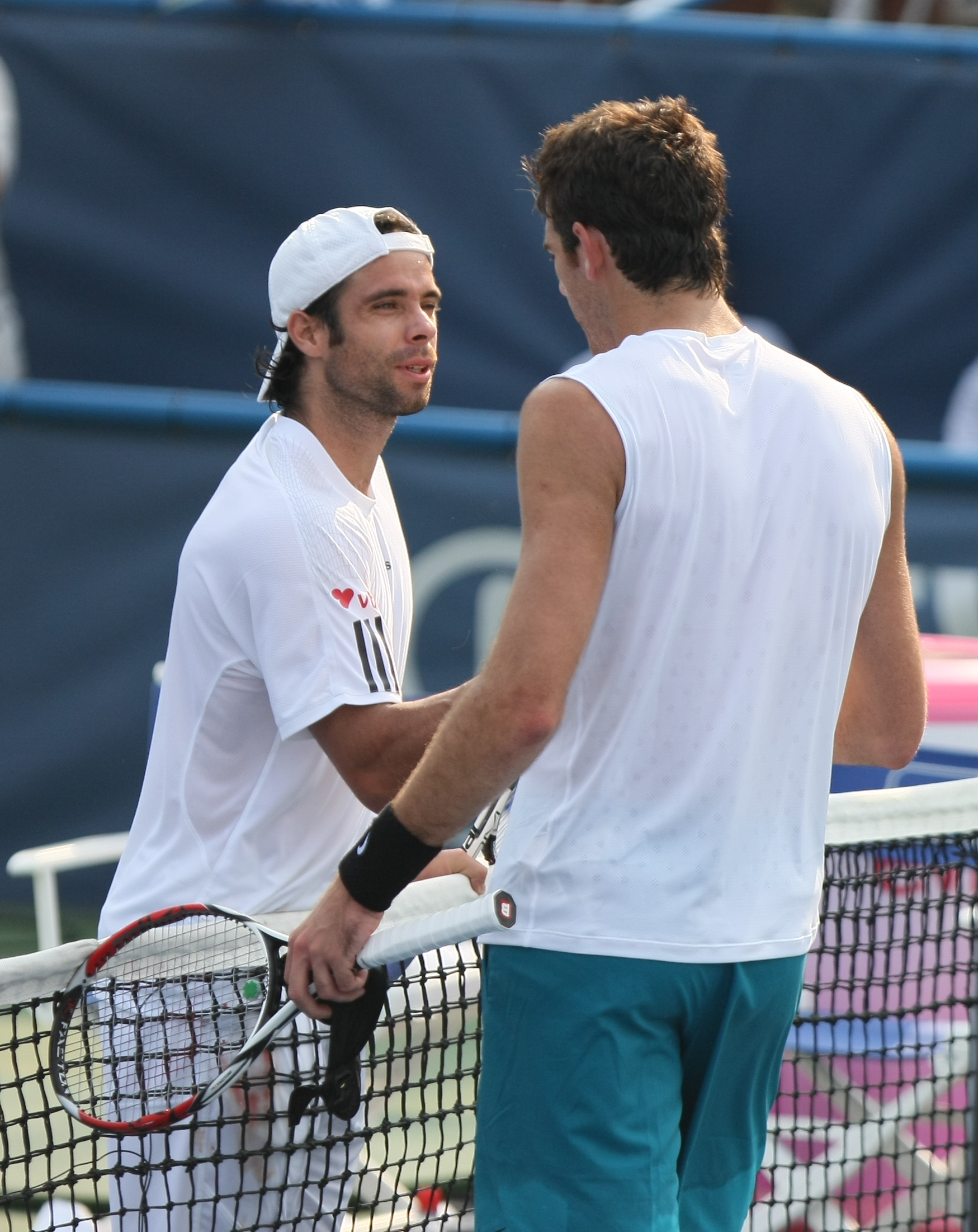 Legg Mason Tennis Tournament 08/08/09